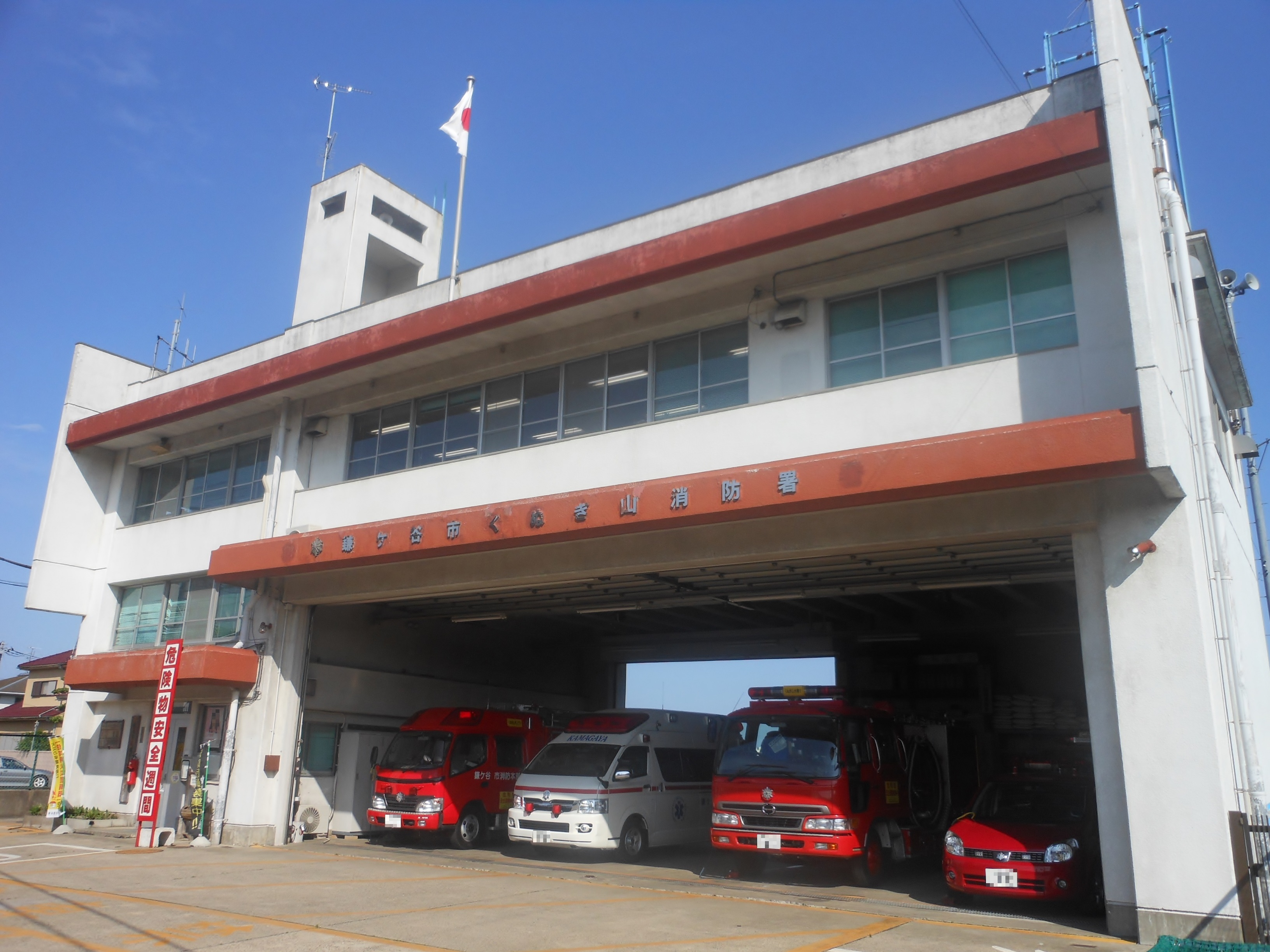 This is the building used for a fire station. It is in Kamagaya, Chiba, Japan.